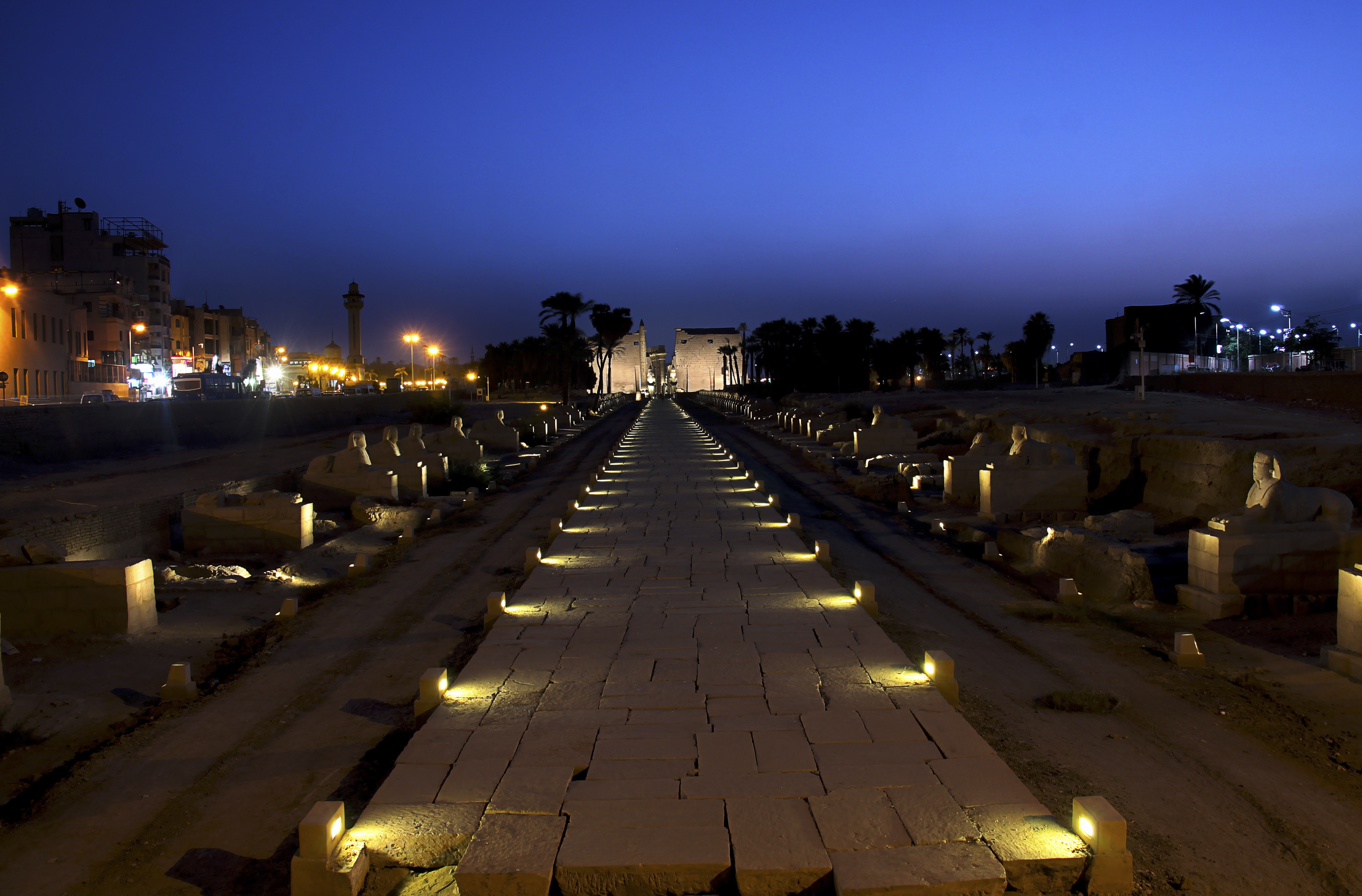 Luxor Temple is a large Ancient Egyptian temple complex located on the east bank of the Nile River in the city today known as Luxor and was founded in 1400 BCE. Known in the Egyptian language as ipet resyt, or "the southern sanctuary